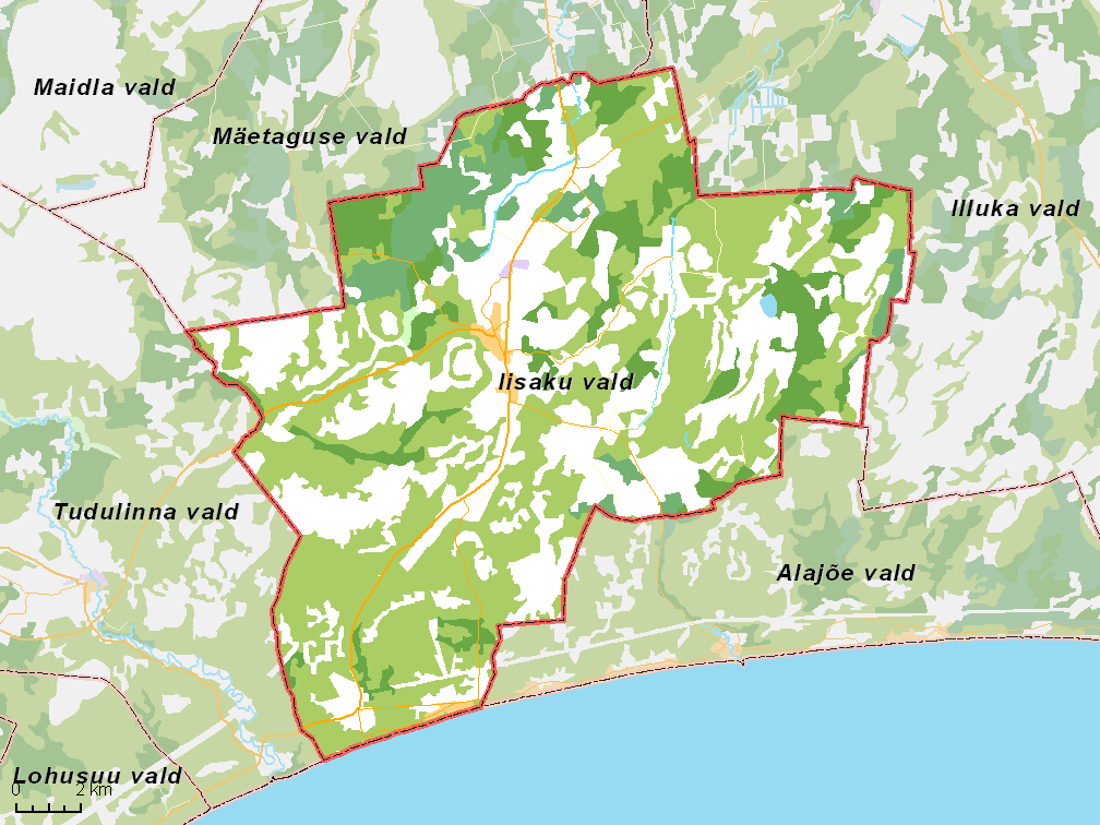 Map of municipality in Estonia